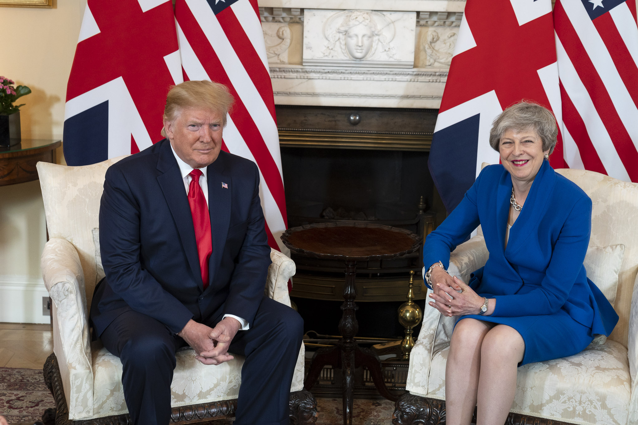 President Donald J. Trump meets with British Prime Minister Theresa May Tuesday, June 4, 2019, at No. 10 Downing Street in London. (Official White House Photo by Shealah Craighead)